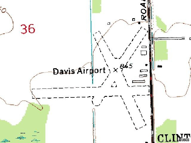 Topographical map of former Davis Airport, southeast DeWitt Township, Clinton County, East Lansing, Michigan.